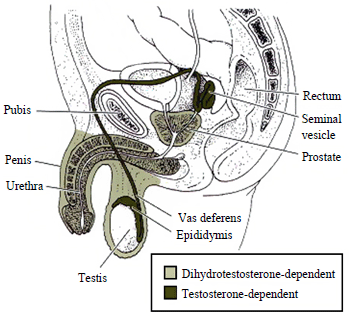 Masculinization of the male genitalia is dependent on both testosterone and dihydrotestosterone. Original work, based on the following source: Gilbert SF. Developmental biology, sixth edition. Sunderland, MA: Sinauer Associates, 2000.